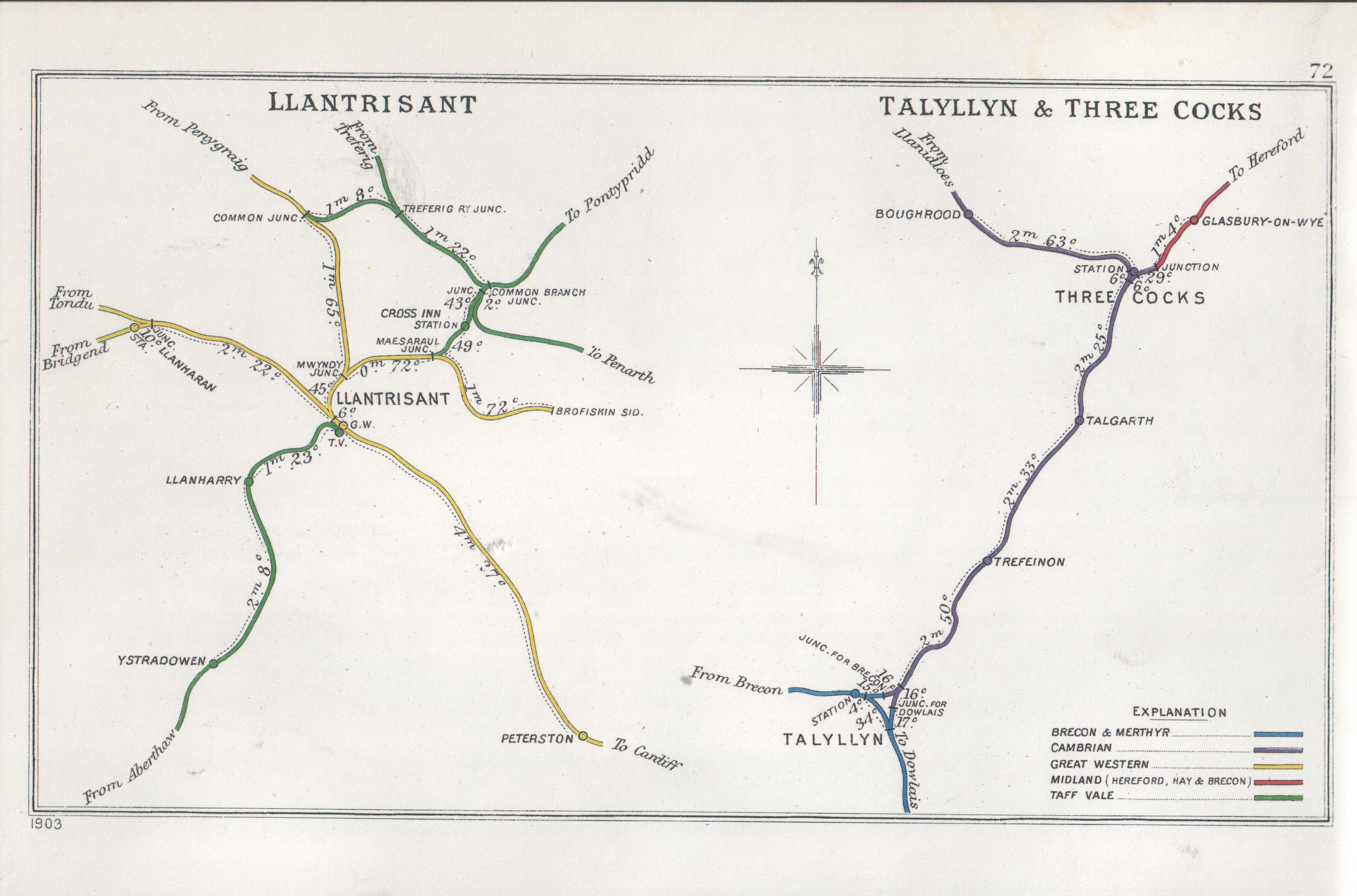 Pre Grouping railway junction around Llantrisant; Talyllyn & Three Cocks